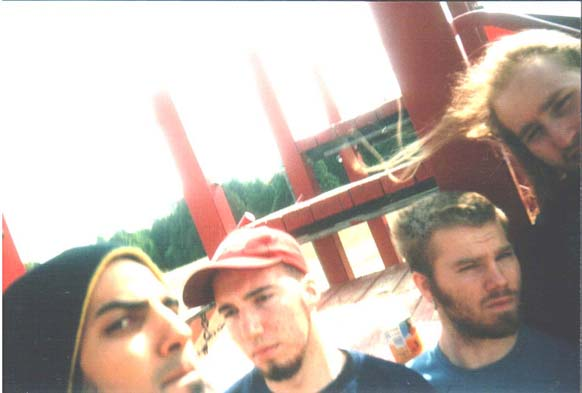 A photo of Fuck the Facts ca. 2001. It is taken from the band's website where it is used under their media section, and is available there for free download. E-mail forwarded to OTRS.